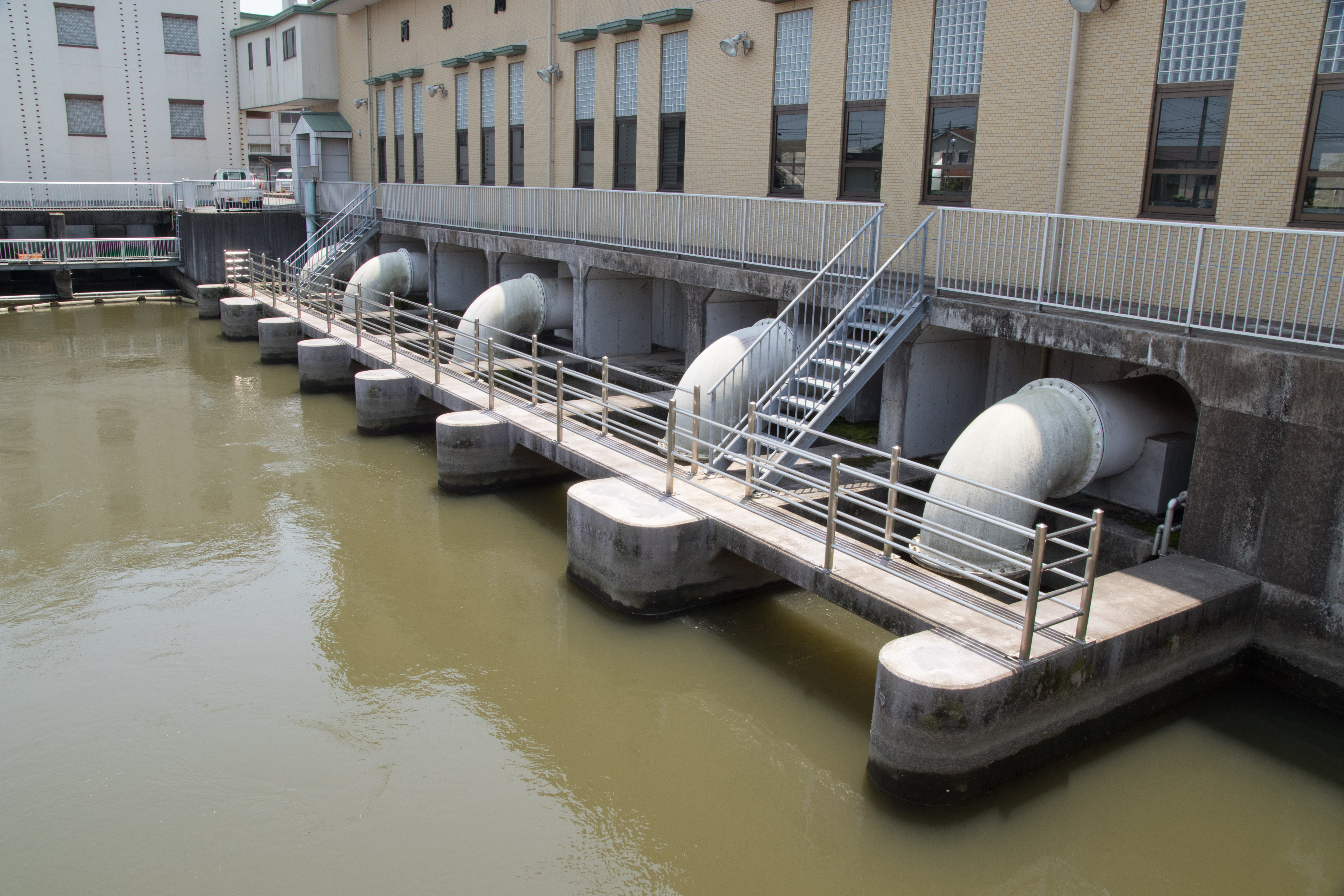 The primary pumping station of Ryoso Aqueduct(Ryōsō Yōsui 両総用水), Katori City, Chiba Pref., Japan